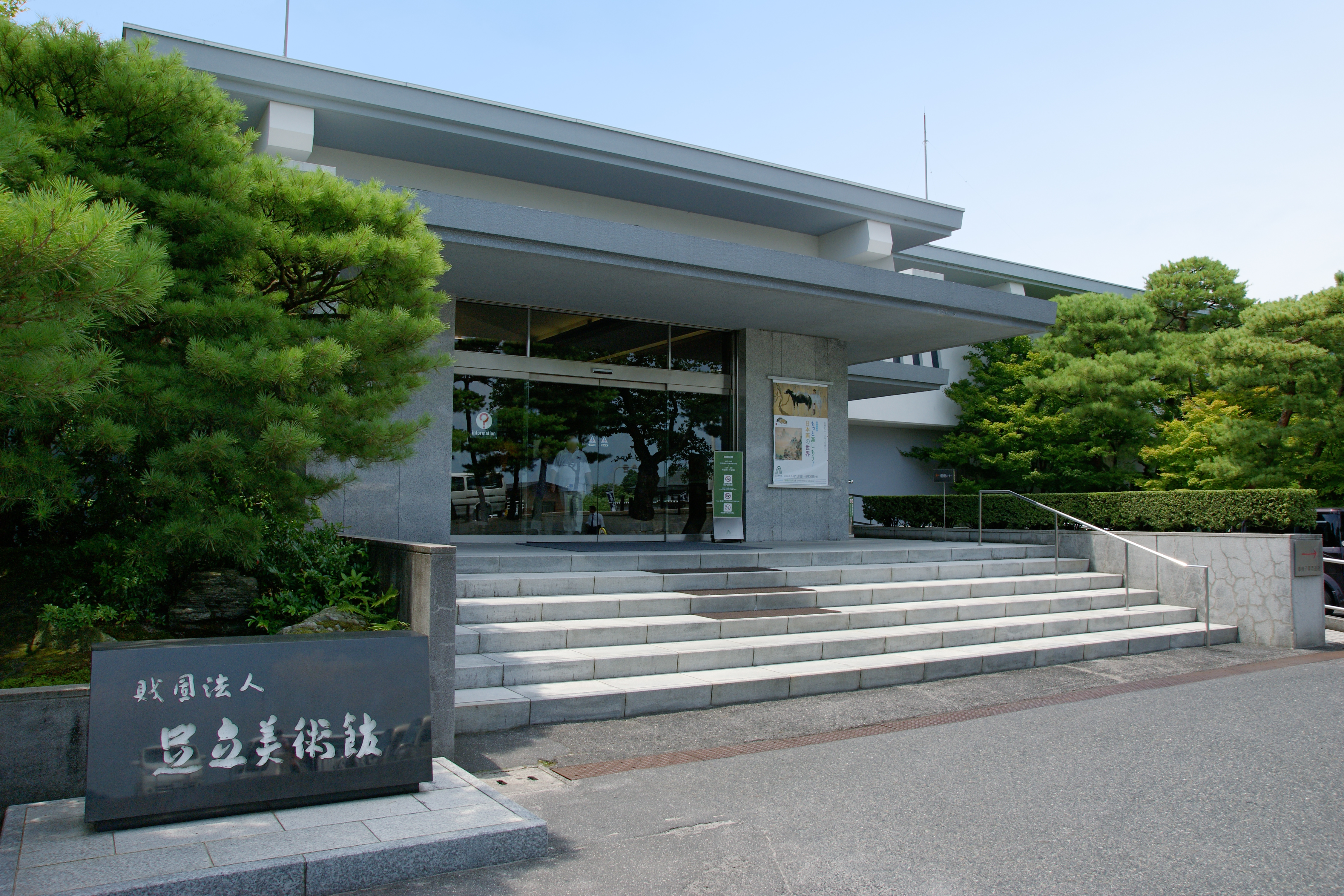 Adachi Museum of Art in Yasugi, Shimane prefecture, Japan